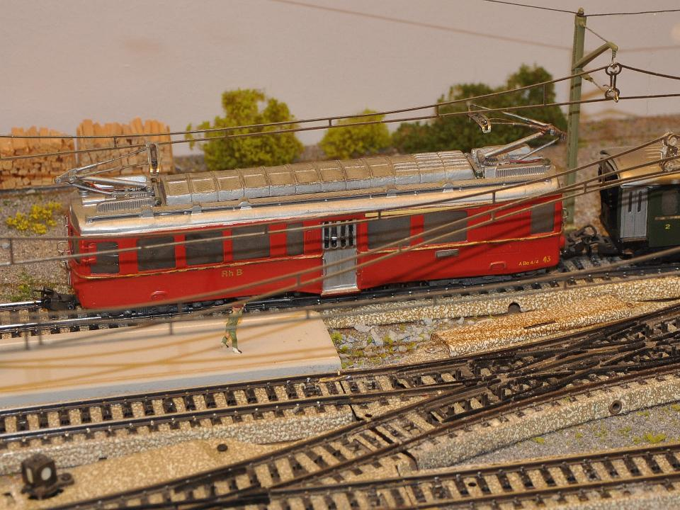 One of the few remaining parts of the large model Bernina railway in Pontresina, that was open to the public 1960 - 1973. Photographed at Hünegg Castle on Lake Thun in Switzerland in summer 2012, during a special exhibition about mountain railways. The red electric railcar ABe 4/4 43 of the Rhaetian Railway is to the scale S, at 1:60. It runs on metal tracks from Märklin H0 with a track gauge of 16.5 mm. A standard green Märklin coach with closed platforms, minimally altered to look like a passenger car of the Bernina railway, runs behind the railcar, modelling technology being rather typical for that time period.